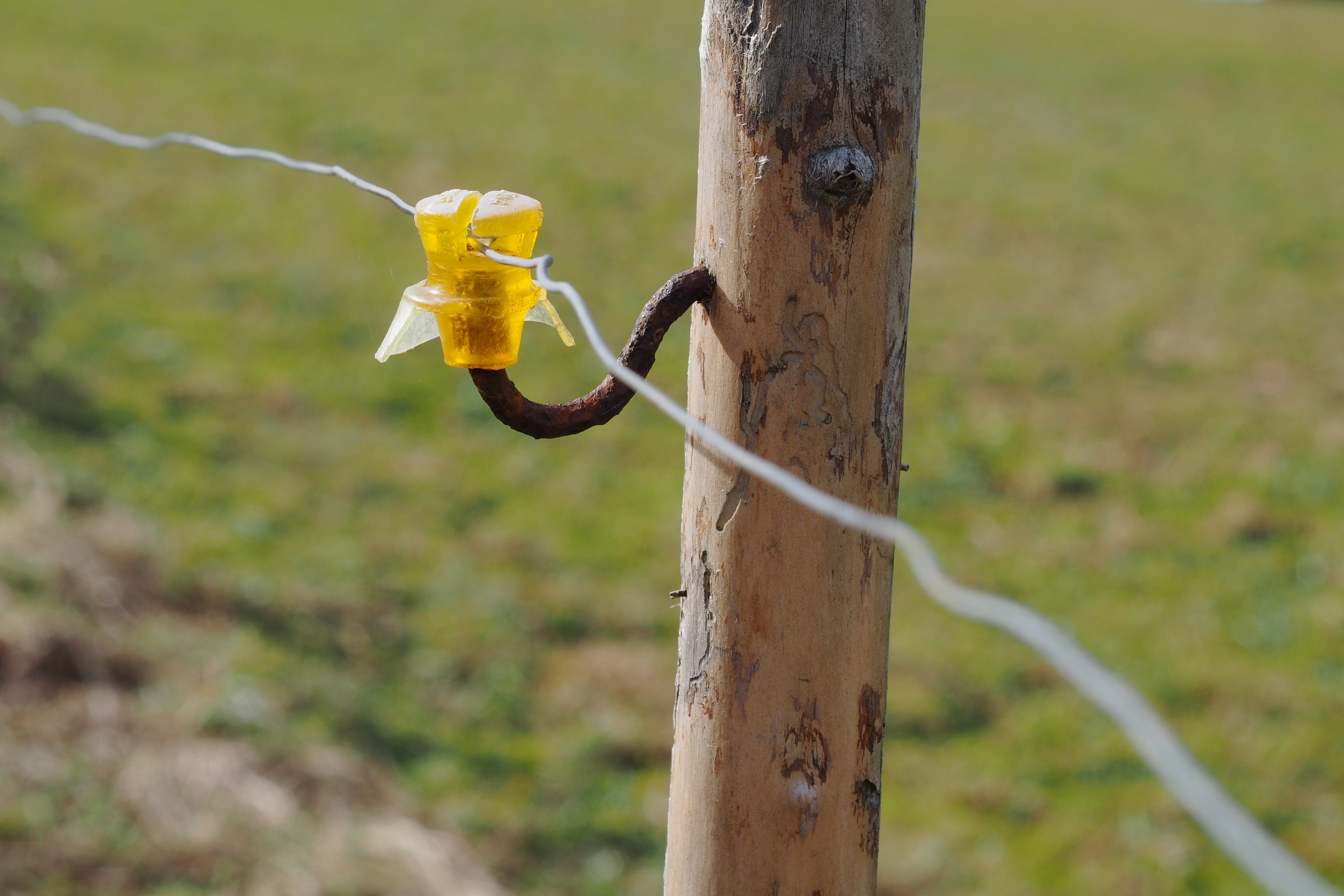 Plastics insulator on an electric fence